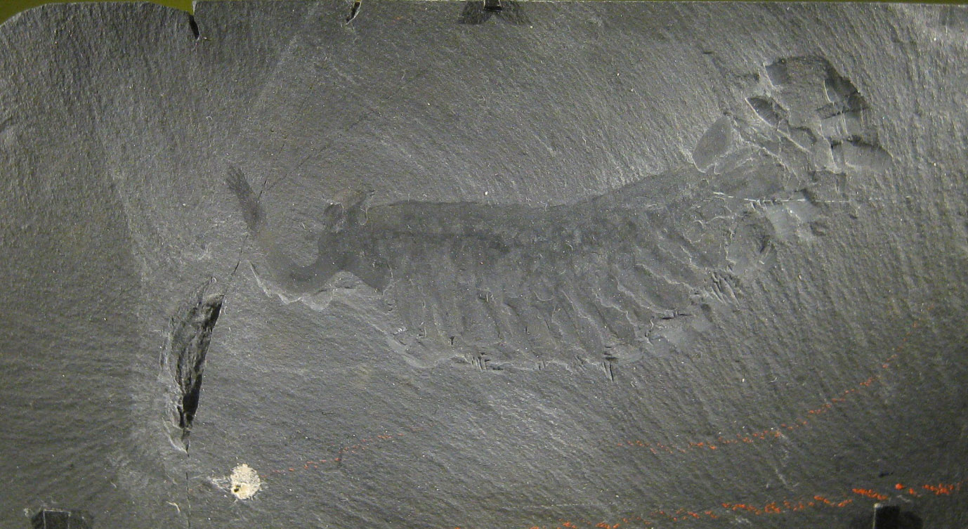 Fossil specimen of Opabinia regalis from the Burgess shale on display at the Smithsonian in Washington, DC. This appears to be the exact specimen pictured in Fig. 42 of 'The Crucible of Creation: The Burgess Shale and the Rise of Animals', by Simon Conway Morris, Oxford University Press, 1998.